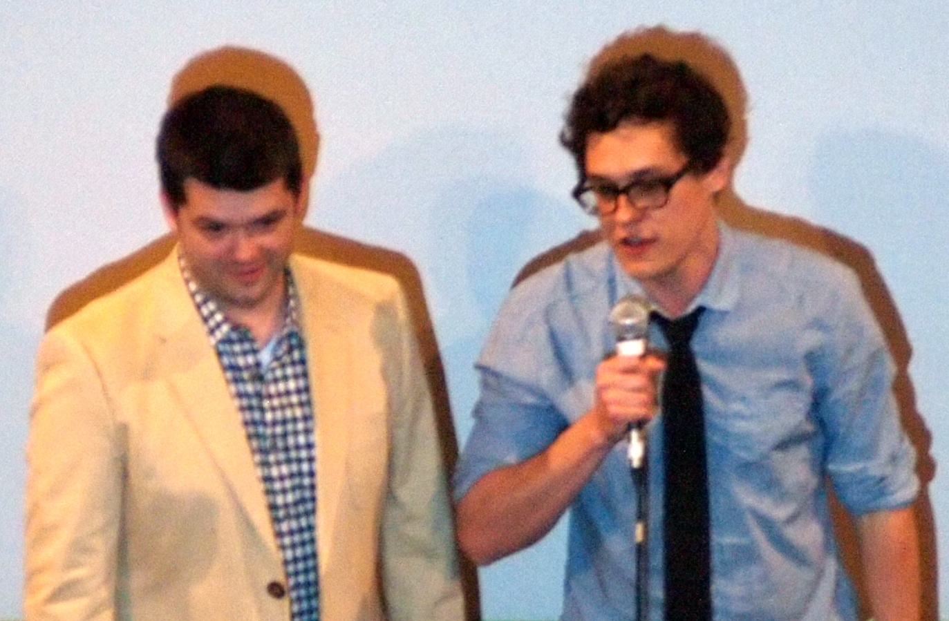 Chris Miller and Phil Lord promoting film "21 Jump Street" at the 2012 South by Southwest (SXSW) in Austin, Texas, United States.